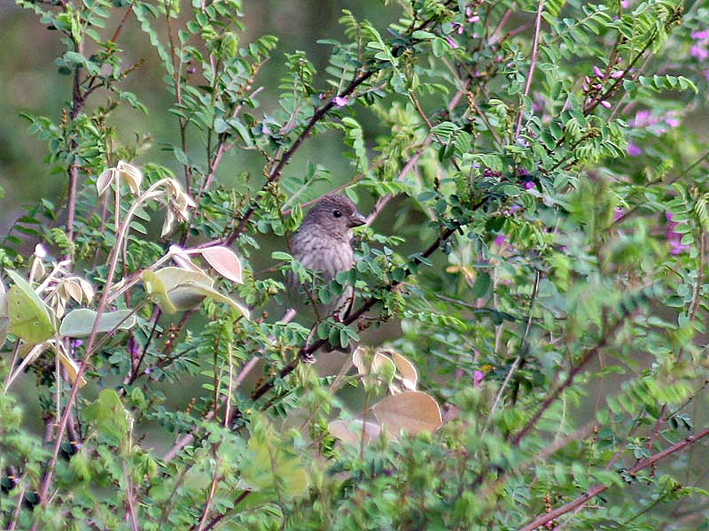 Common Rosefinch (Carpodacus erythrinus) in Kullu District of Himachal Pradesh, India.